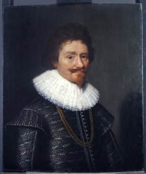 portrait of Jacob Wijts (1579-1643) by Mierevelt